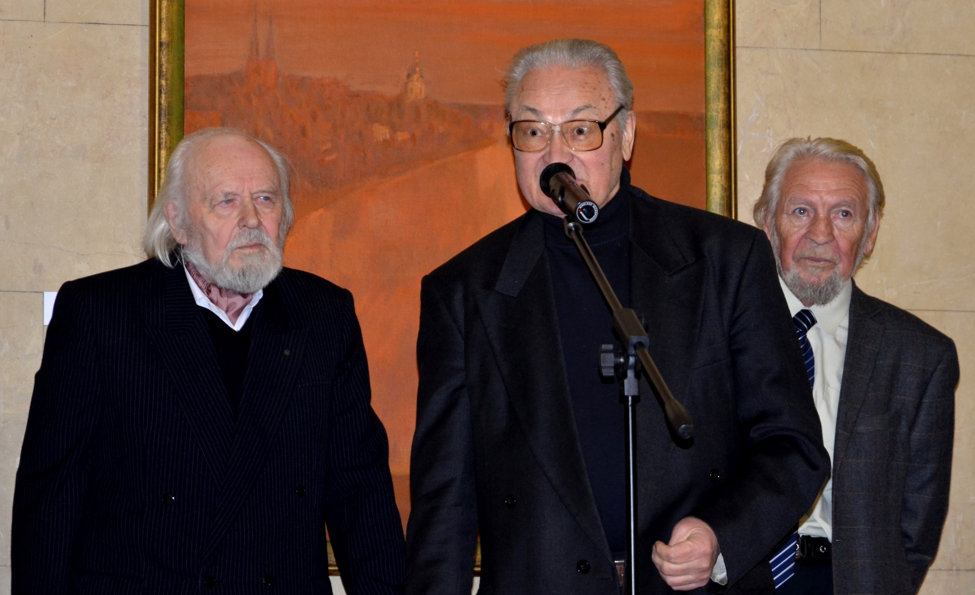 Opening of an exhibition of painting of Gabriel Vashchenko in the National art museum of Belarus devoted to the 85 anniversary of the artist. From left to right: Gabriel Vashchenko, Gennady Buravkin, Vasily Sharangovich.